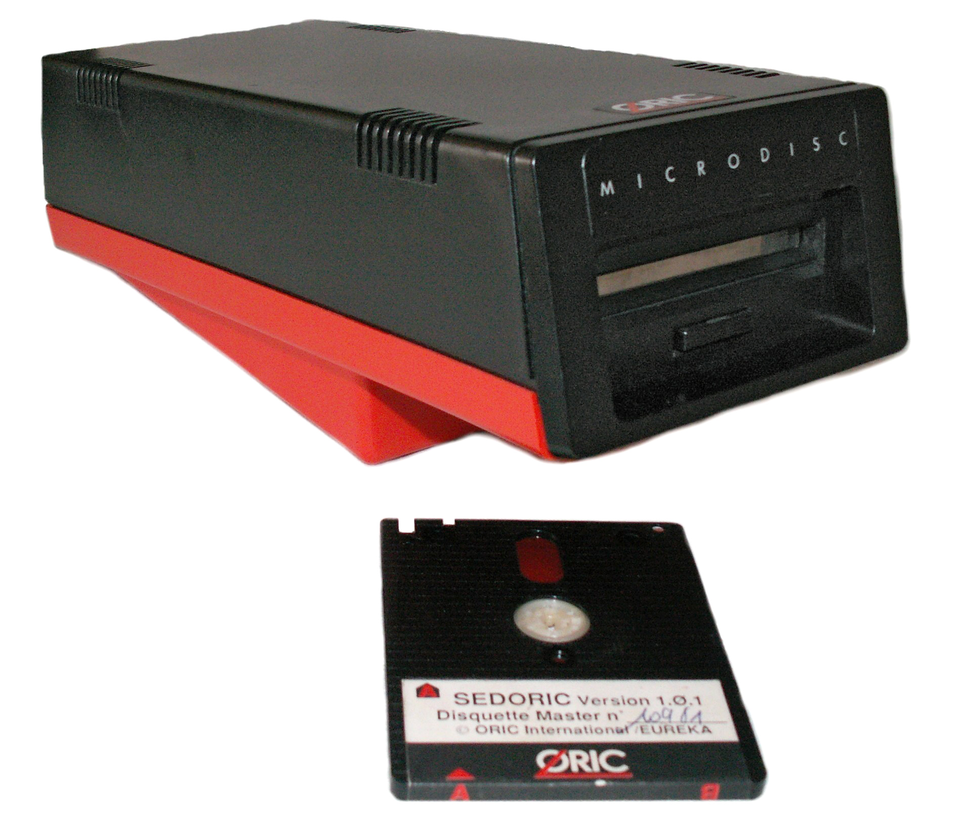 Floppy disc controler Microdisc